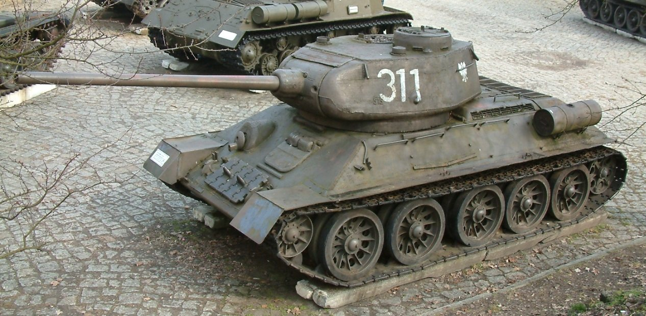 T-34/85 in Poznań